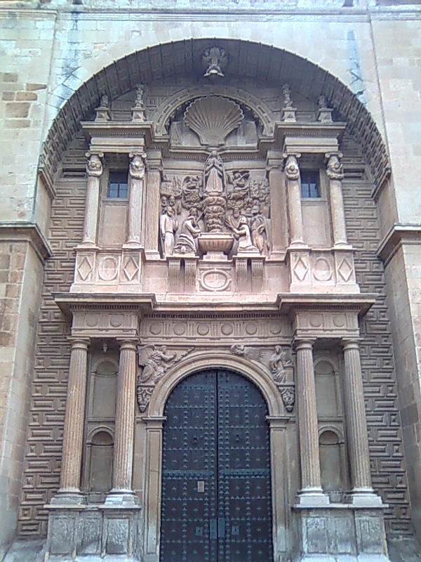 Doorway of the church of La Asuncion in Almansa (Spain).